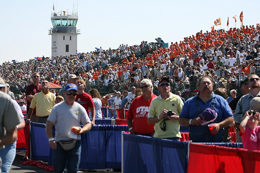 Reno Air Races - Visitors Reno Air Races - Visitors